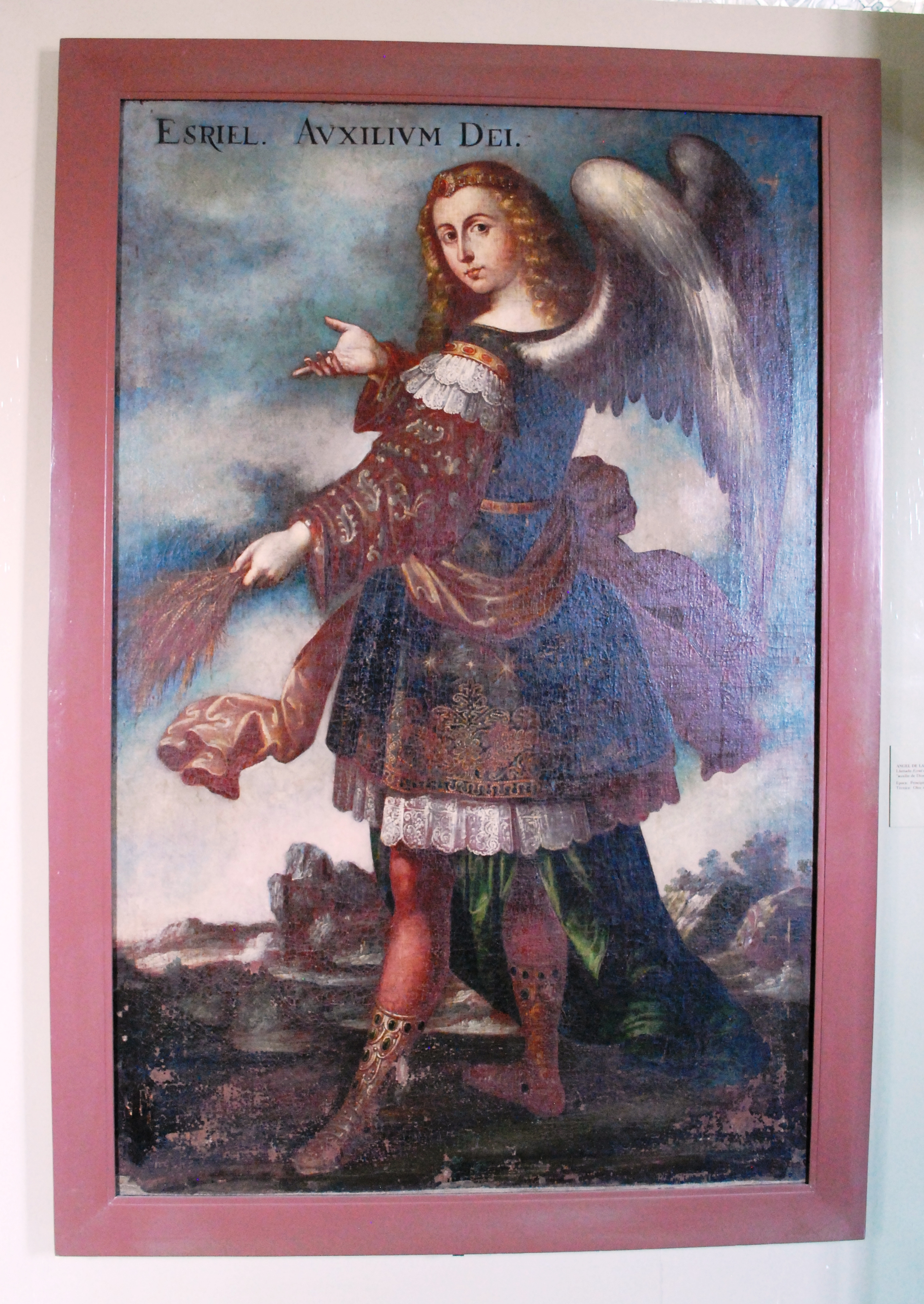 "Angel de la Letania" by unknown author from the 17th century at the Viceregal Museum of the former monastery of Acolman, Mexico State, Mexico